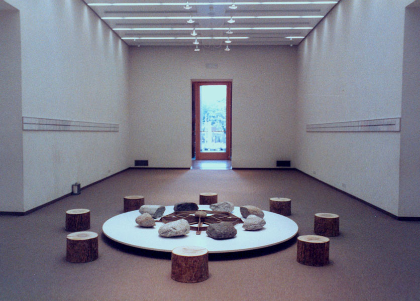 Artist :Gianfredo Camesi Title : «Cosmogonie 0 – 1 – 0 , Théatre des Signes», exhibition at the Musée Rath, Geneva, Switzerland. 1985.